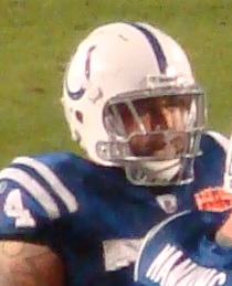 Indianapolis Colts offensive line huddles during Super Bowl XLIV in Miami, Fla.